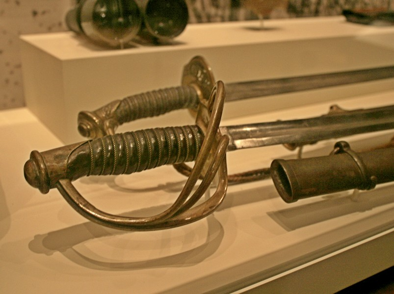 Museum at Appomattox, Model 1850 US foot officer's sword, presented by Lusy Lee Hill, 1897